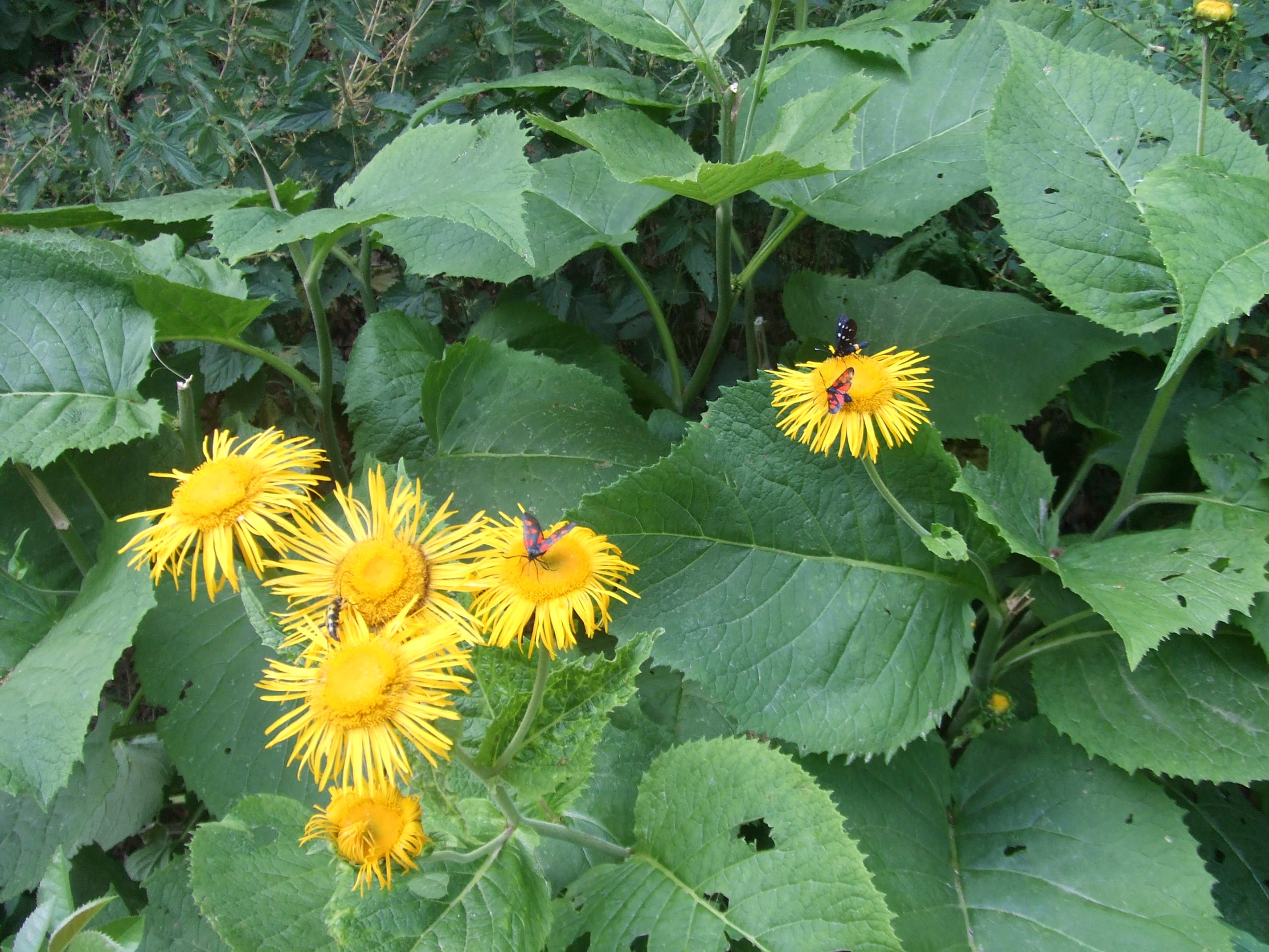 Prirodni_ubavini_(11).jpg